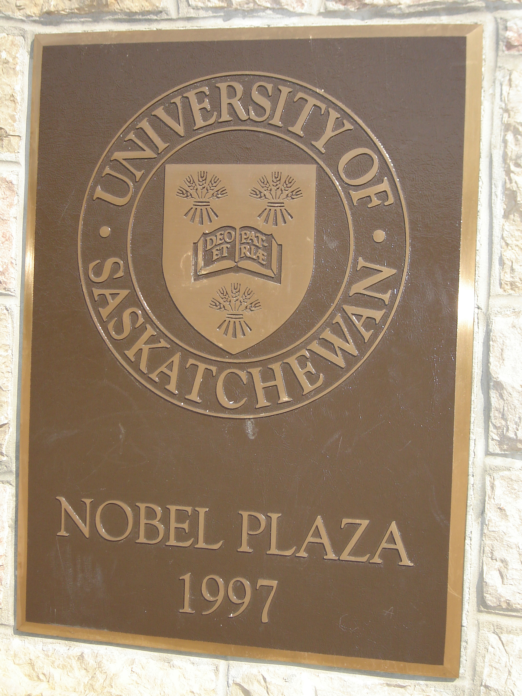 Nobel Plaza plaque College Building U of S Saskatoon Sasktchewan Canada